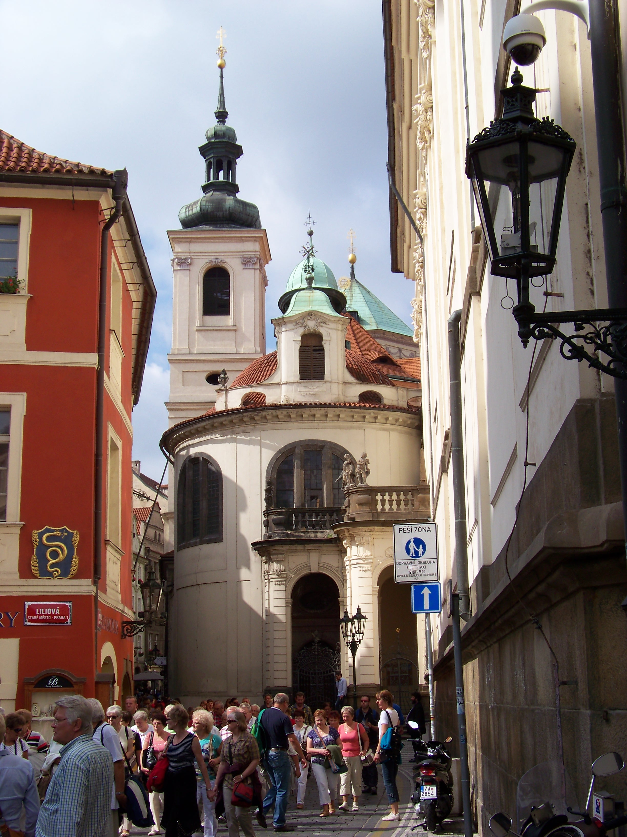 Prague-Old Town. Karlova street, Saint Salvator Church. - OpenStreetMap (Info)